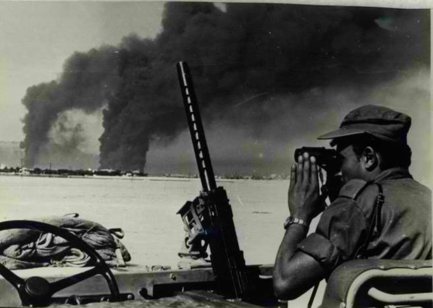 On the basis of terms of use